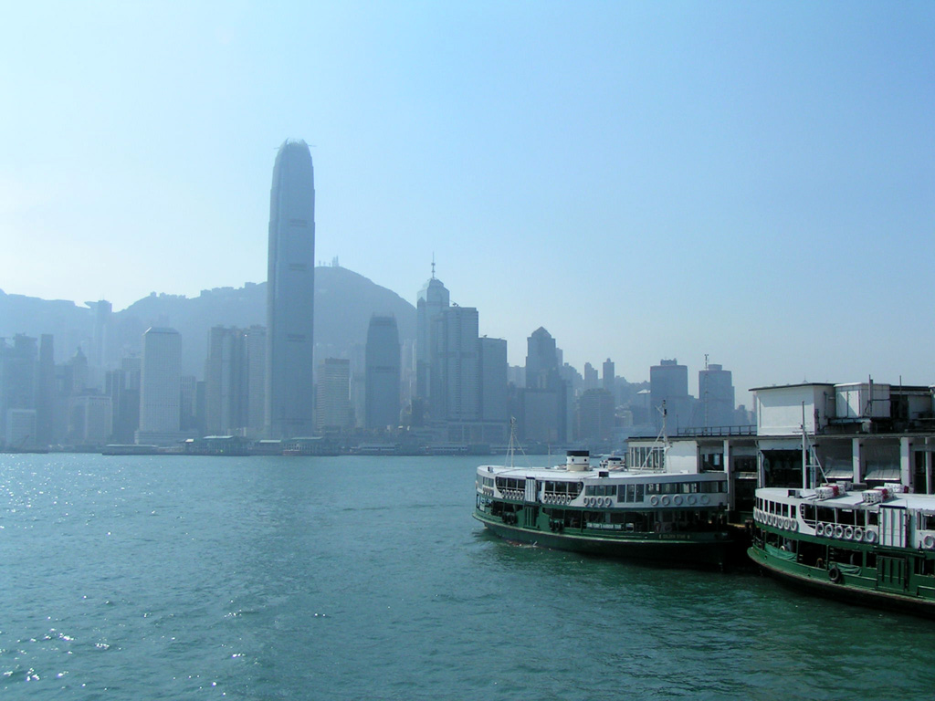 Tsim Sha Tsui Star Ferry pier and Central buildings in the back